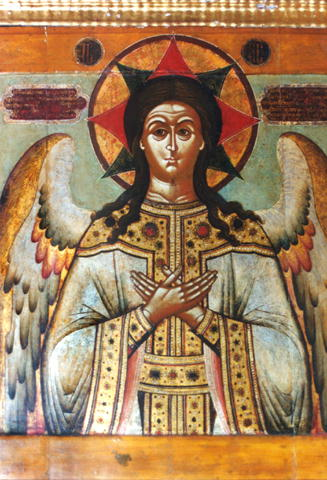 Christ "The Good Silence" - Spas Blagoe Molchanie